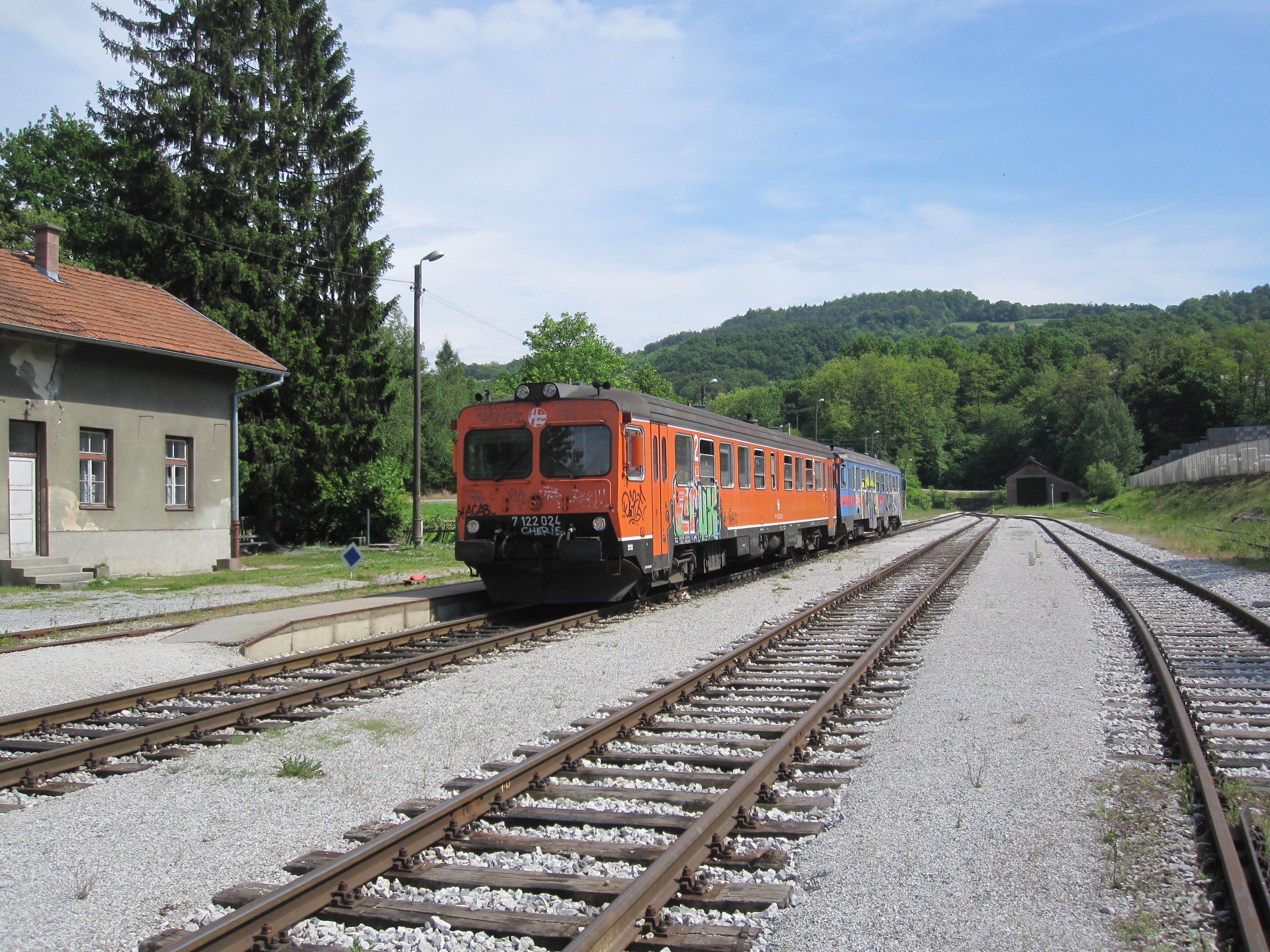 HŽ 7122 at Golubovec Train Station.